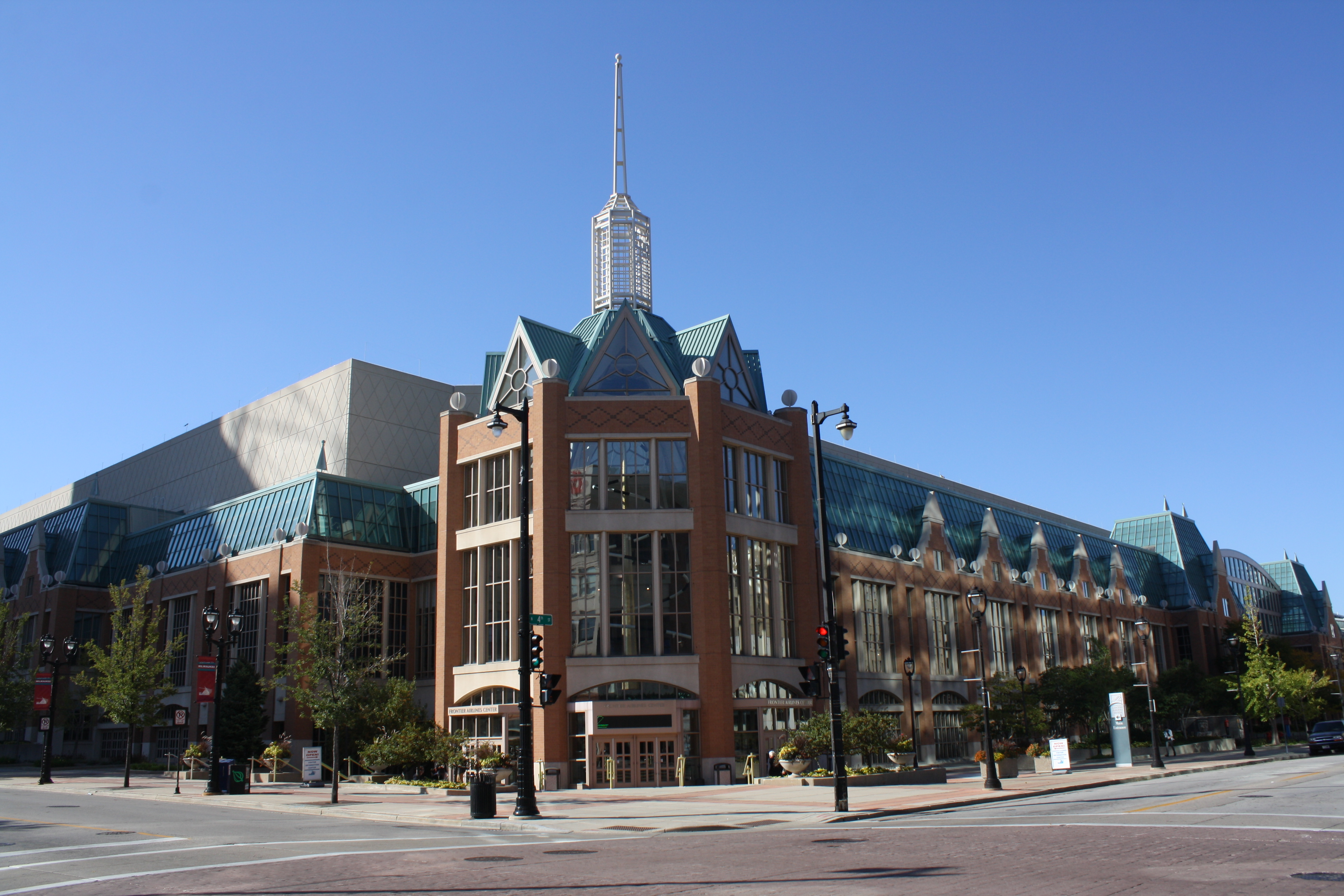 The main entrance to the Frontier Airline Center.